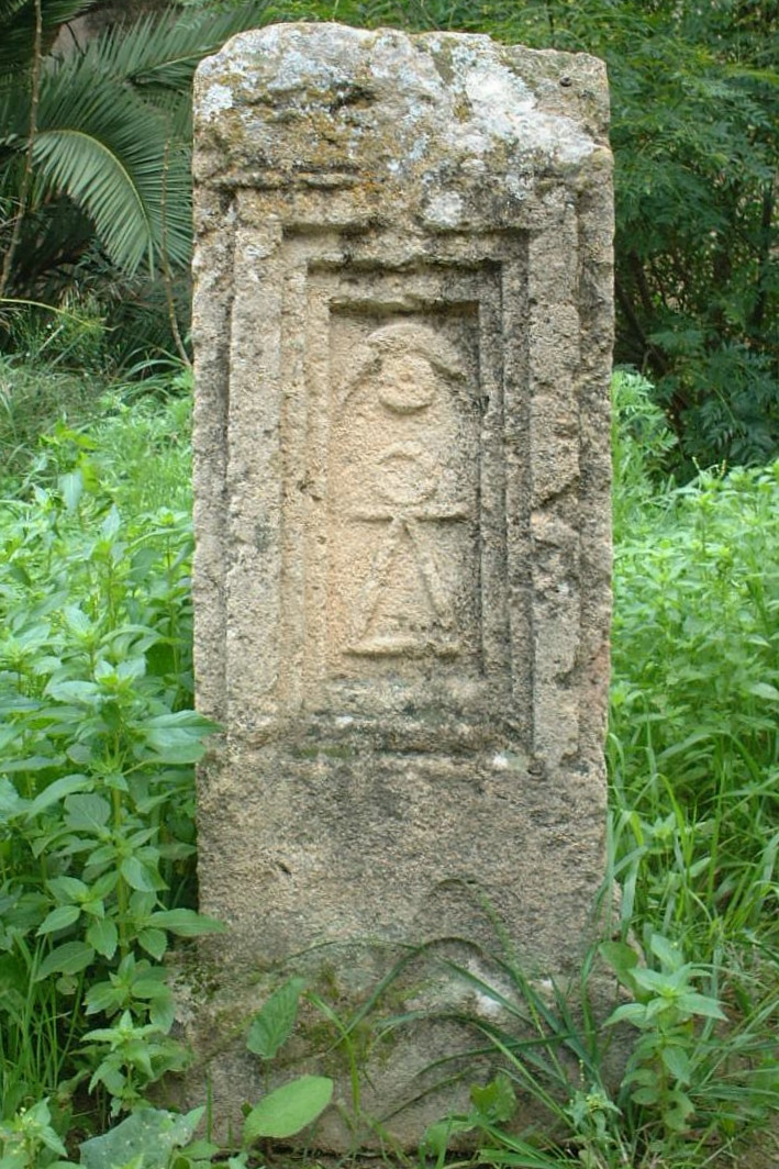 Tanit, Carthage, Tunisia.